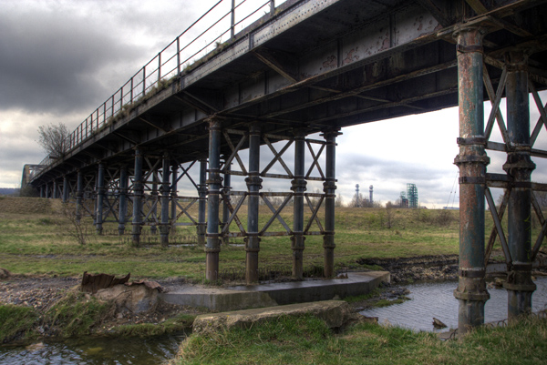 Old railway bridge